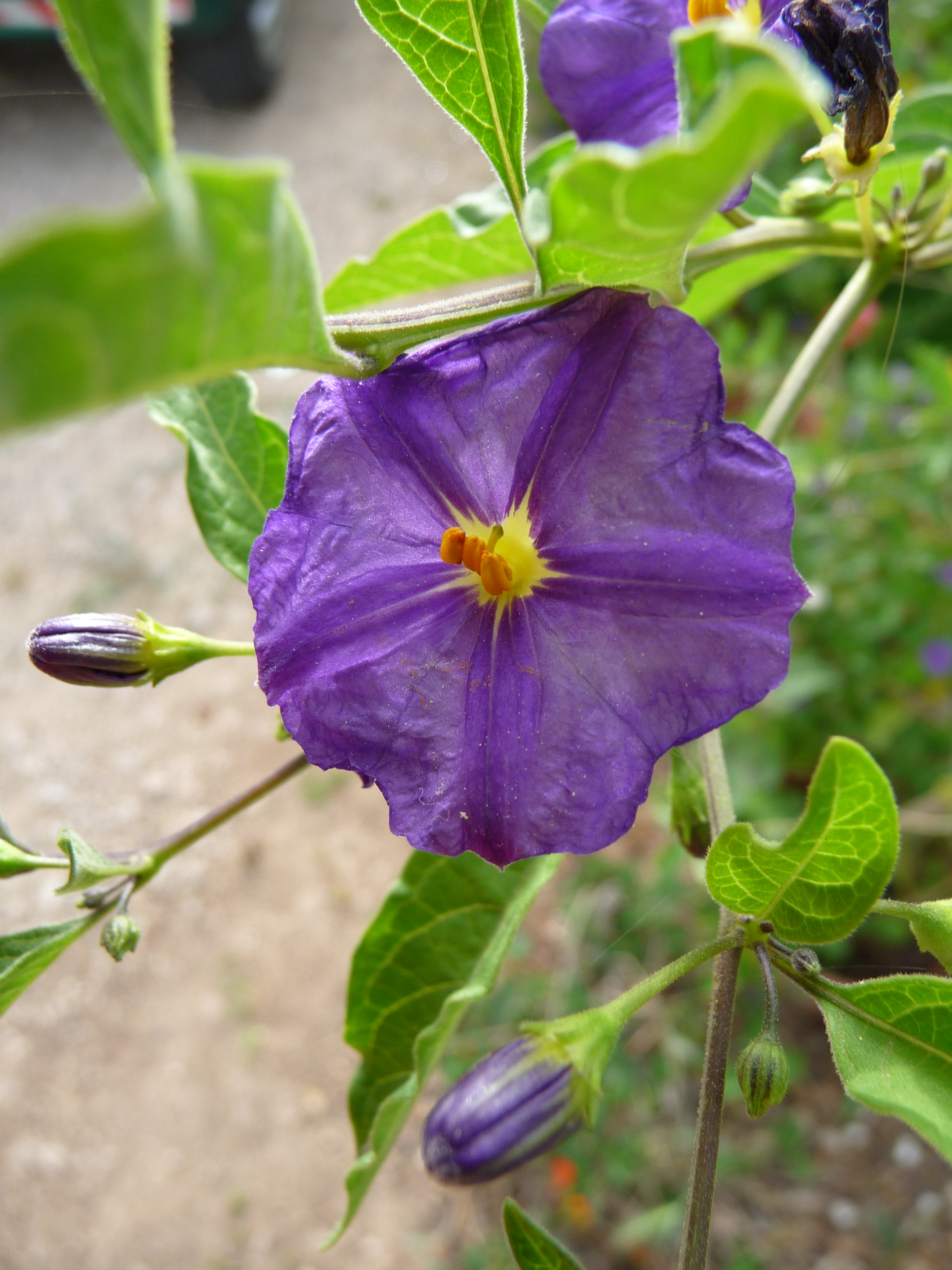 Beit Oren is a kibbutz in northern Israel. It falls under the jurisdiction of Hof HaCarmel Regional Council.